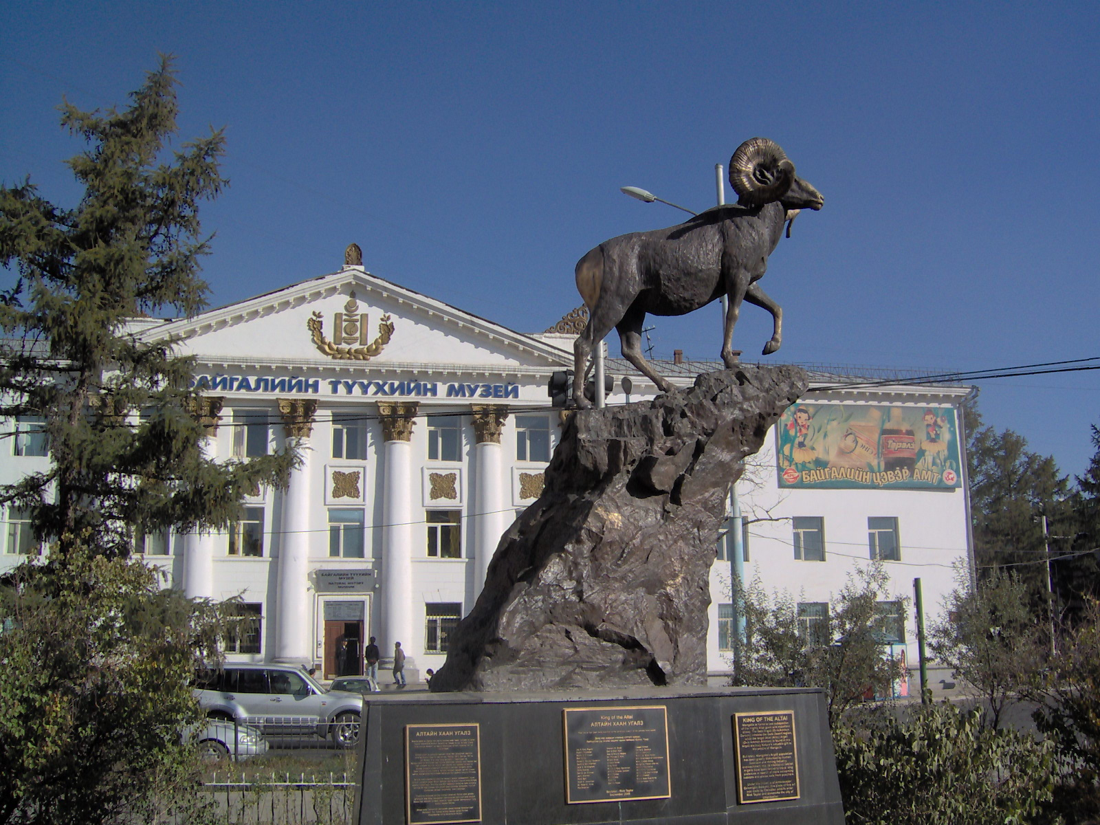 Mountain Goat in front of the Natural History Museum